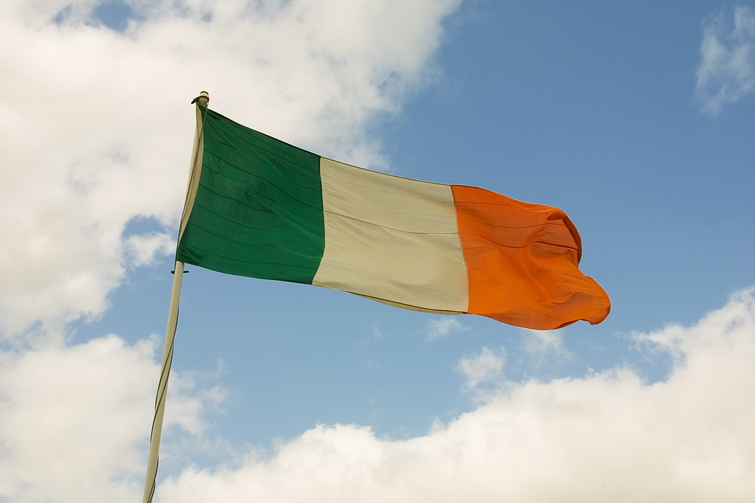 In Memoriam, Easter 1916. It's nice to live in a country where the flag is a symbol of freedom, not an Empire. Unlike the Union Jack, the tricolour is proudly flown everywhere and hasn't yet been appropriated by those who would use symbols for hatred.Tricolour